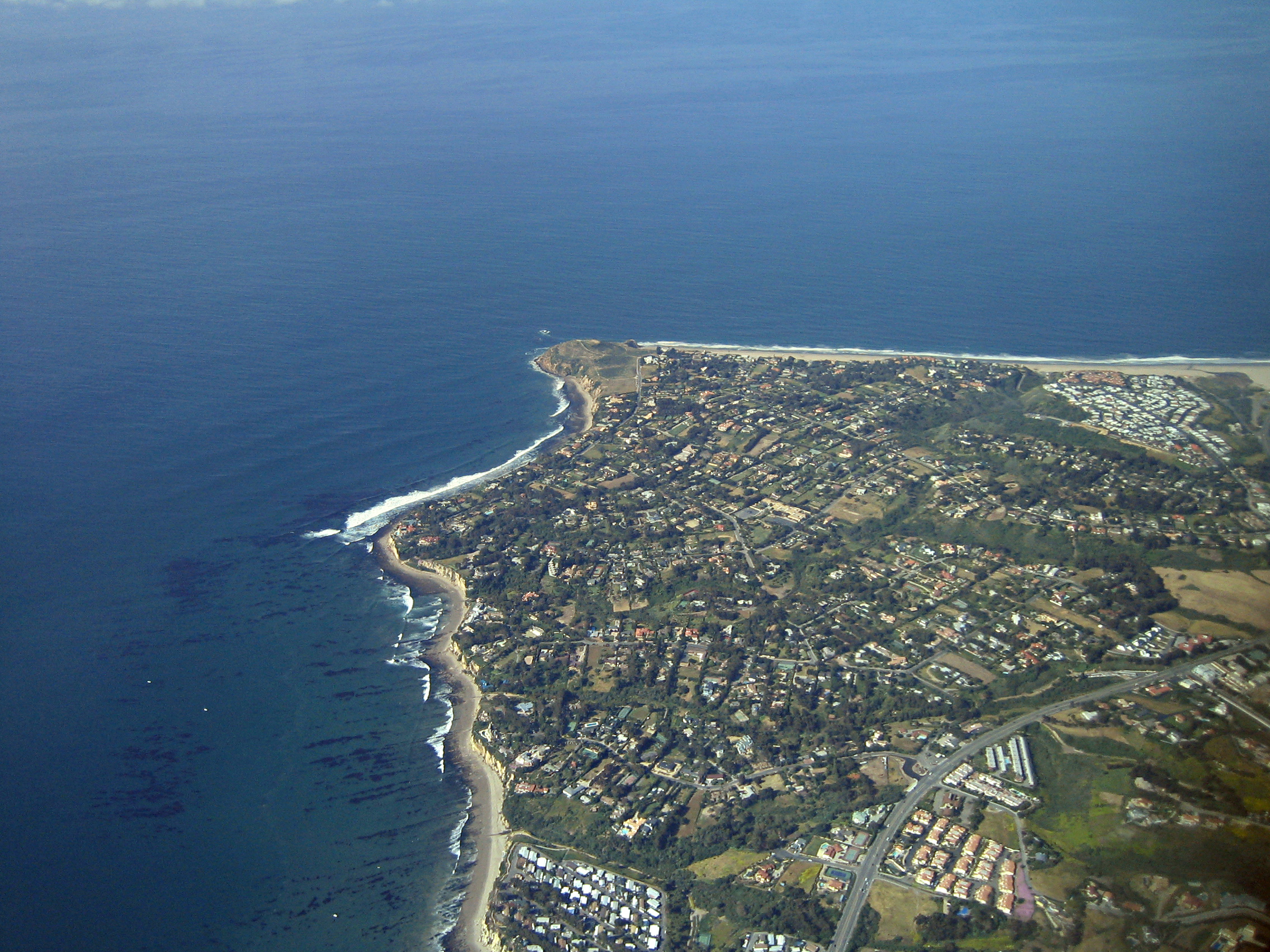 Flying over Point Dume, California, USA, in a Cessna 172.